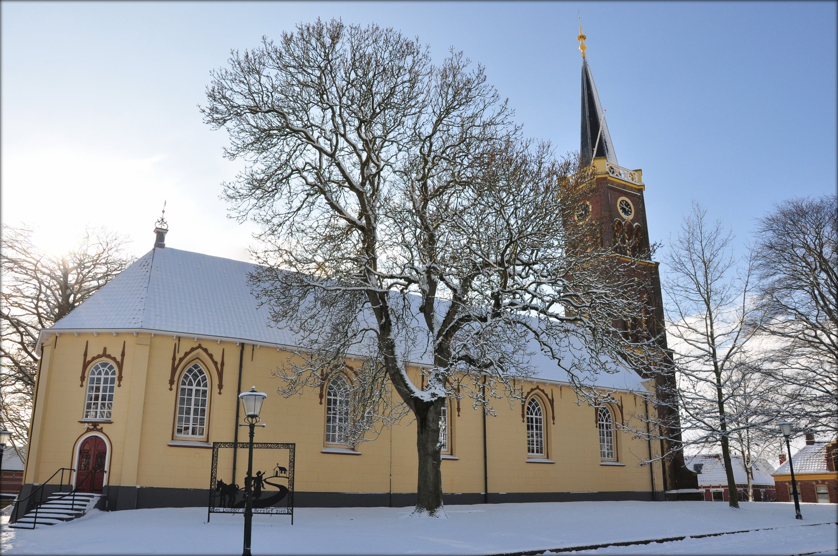 Usquert. Like most churches and villages here, built on an artificial hill (10 m above Mean Sea Level). The time the land wasn't enclosed by dikes yet. Local church.